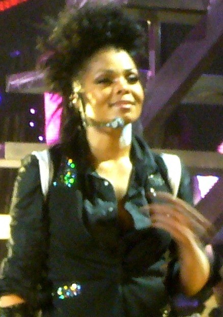 Janet Jackson, Vancouver